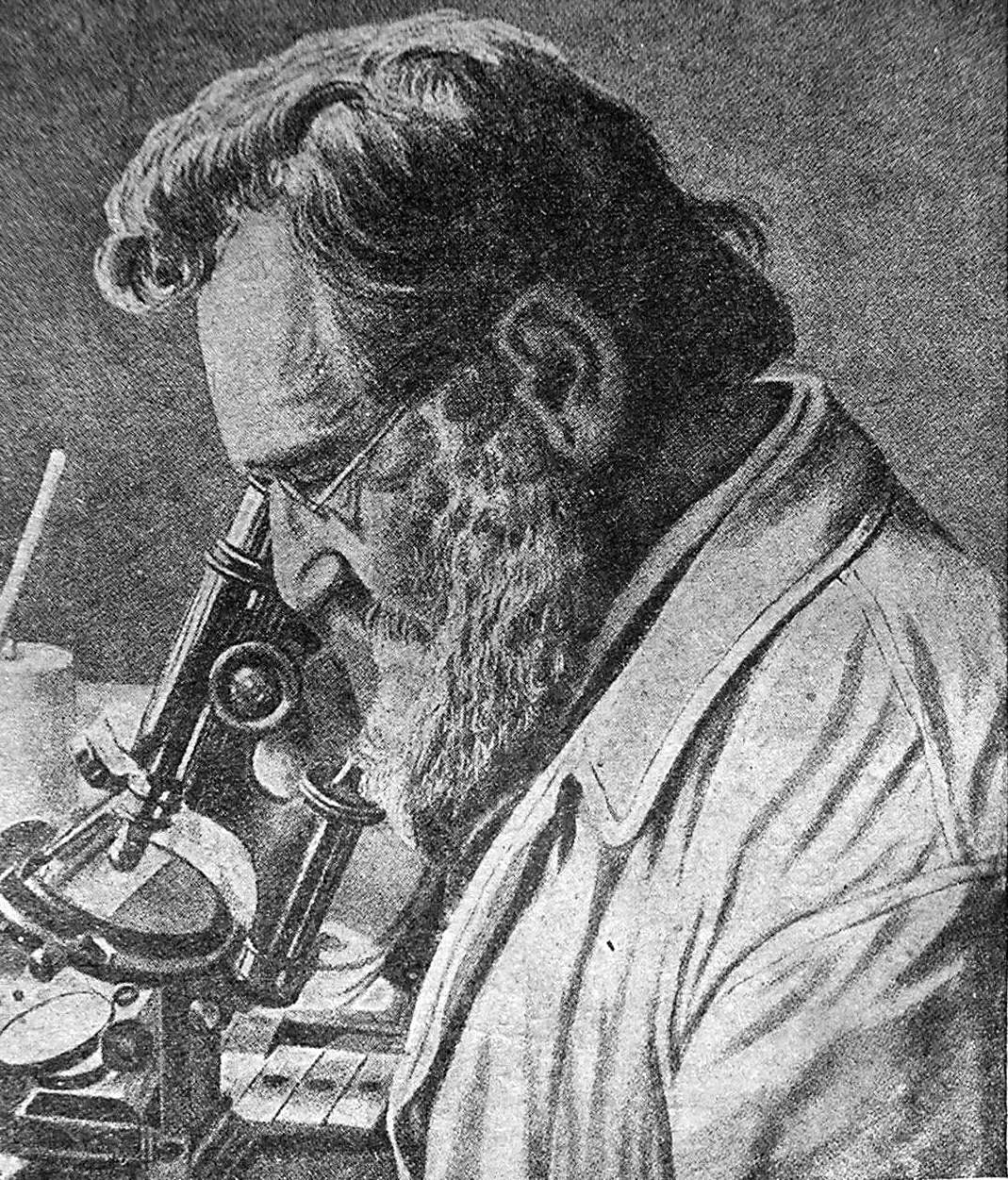 Ilya Ilyich Mechnikov, russian Nobel of Medicine